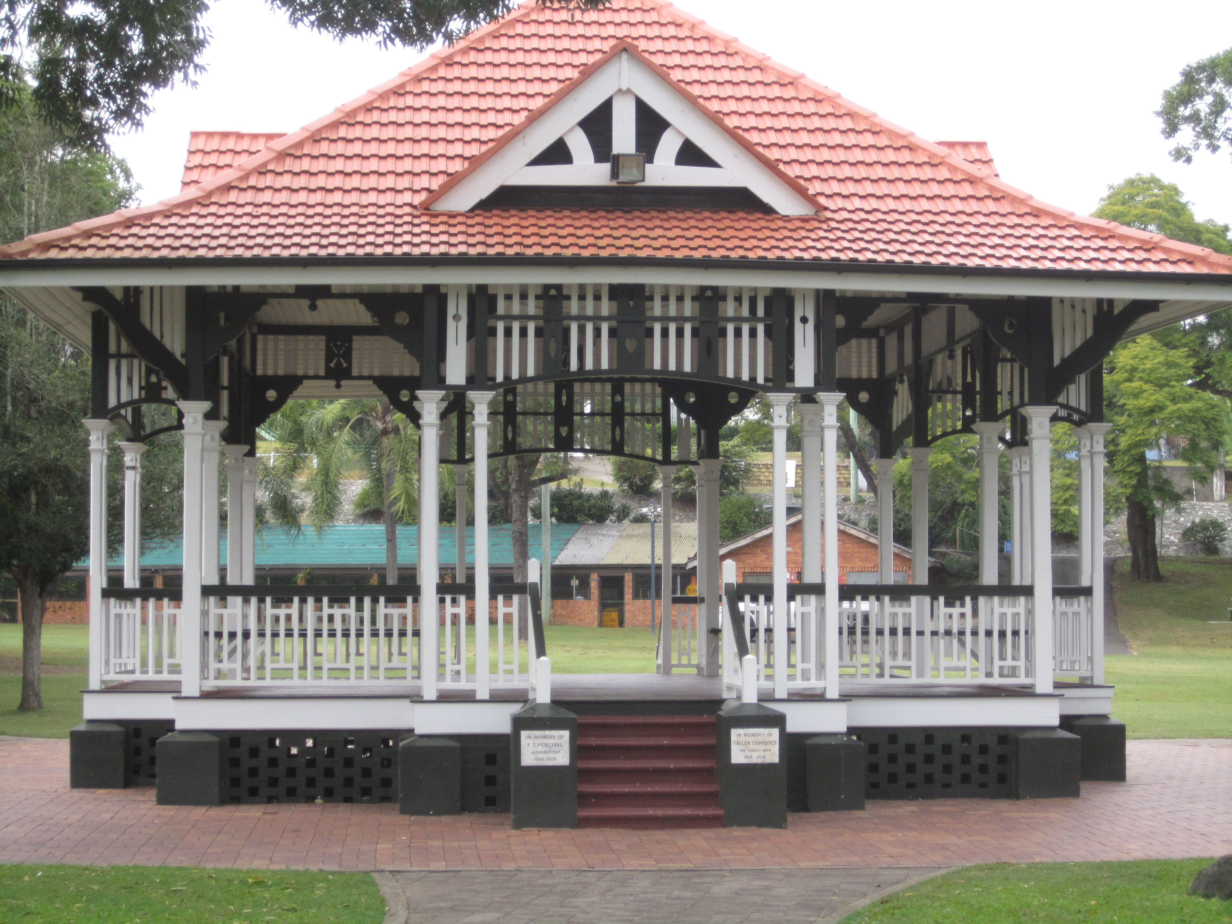 Bandstand in Memorial Park, in Gympie.